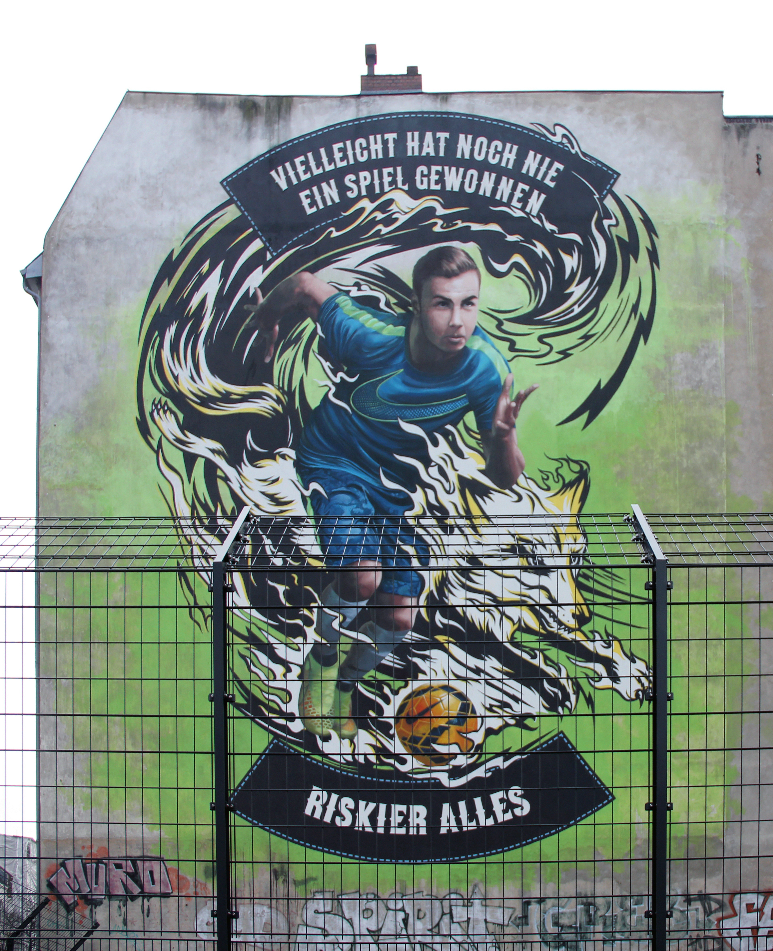 Murals, Riskier alles, Knesebeckstraße 26, Berlin-Charlottenburg, Germany